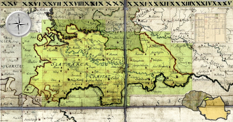 Szatmár County in the Kingdom of Hungary, 1782-85. Josephinische Landesaufnahme